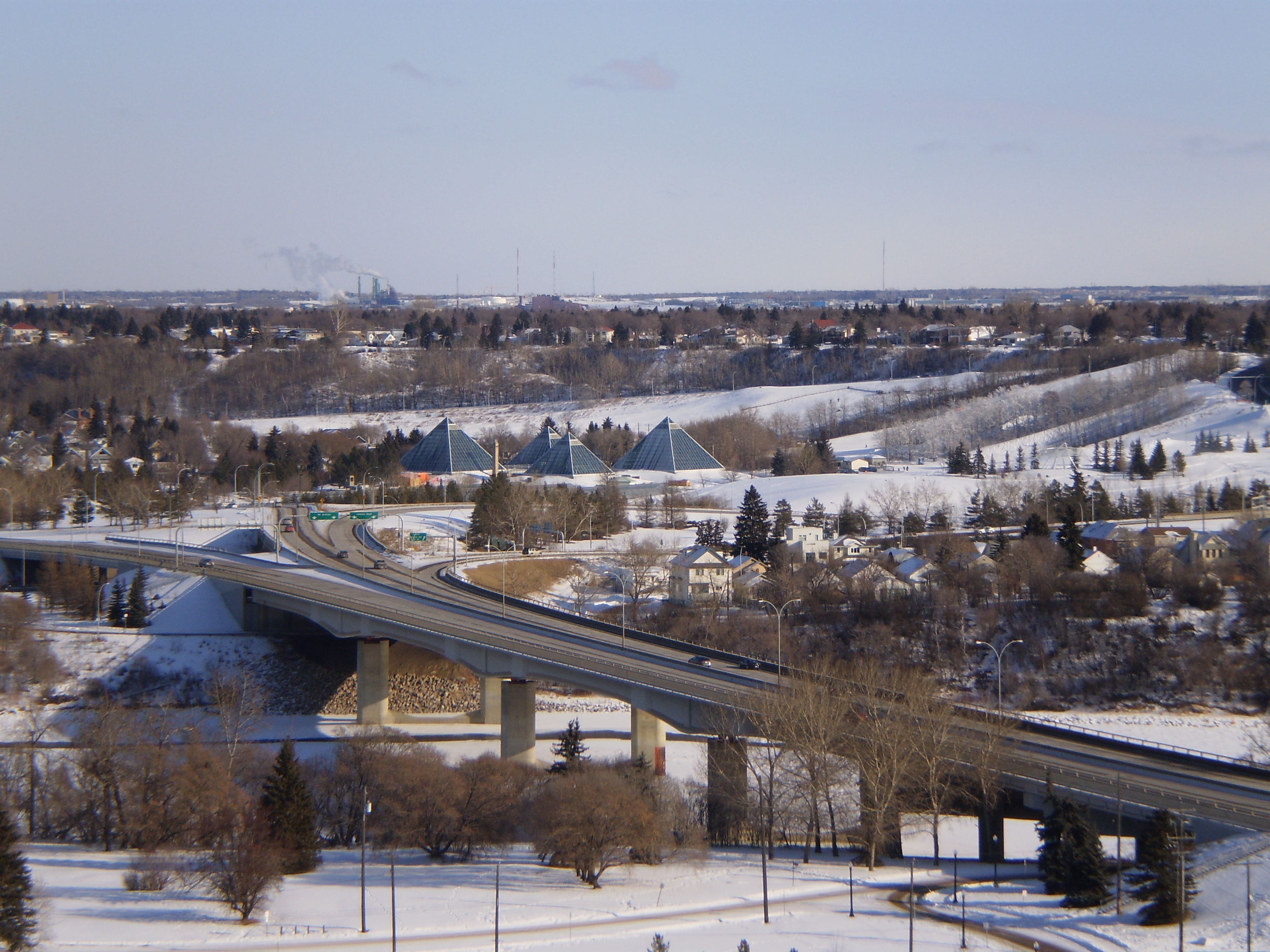 View of Muttart Conservatory from downtown Edmonton Feb., 2009